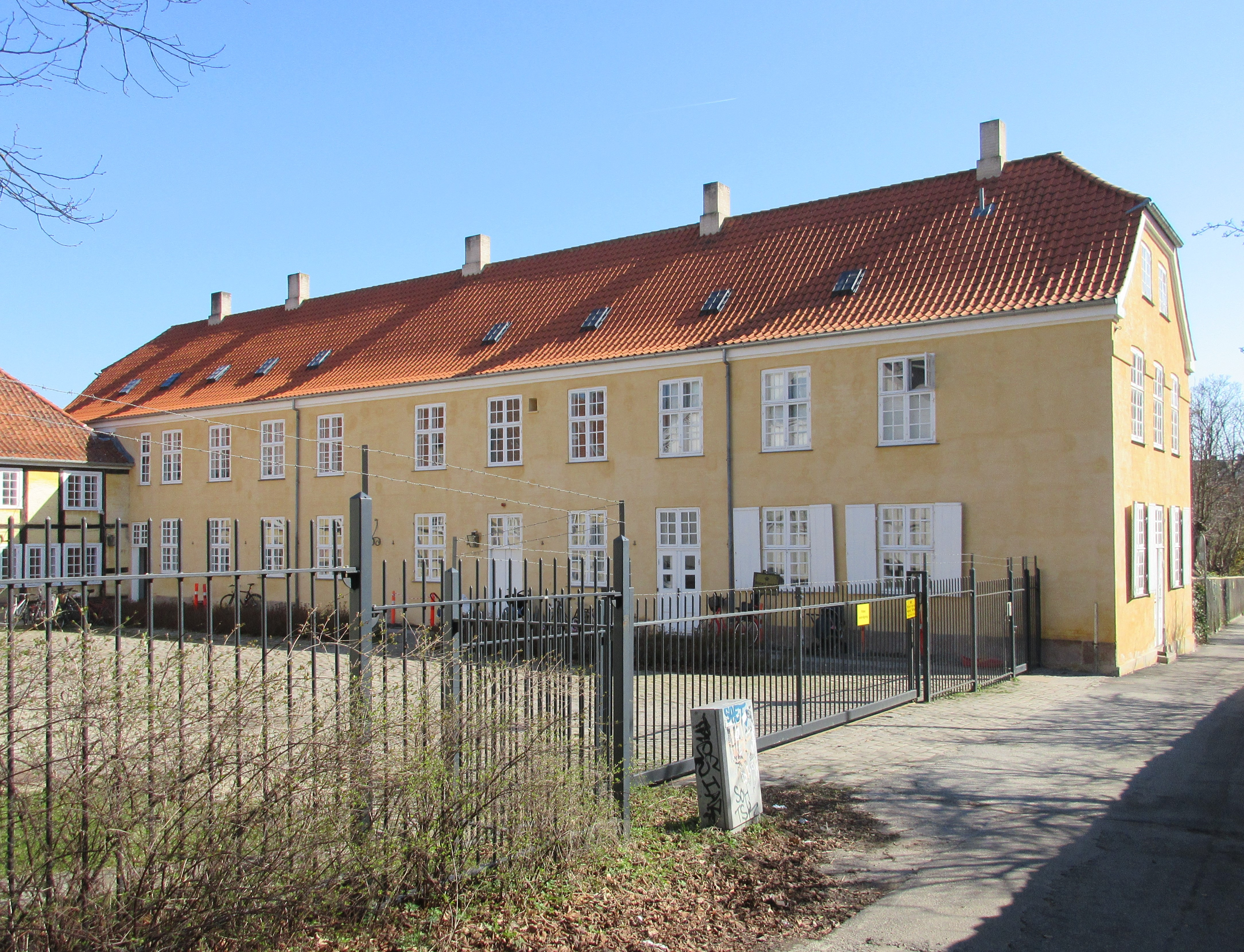 The east wing of Lakajgården in Frederiksberg, Denmark